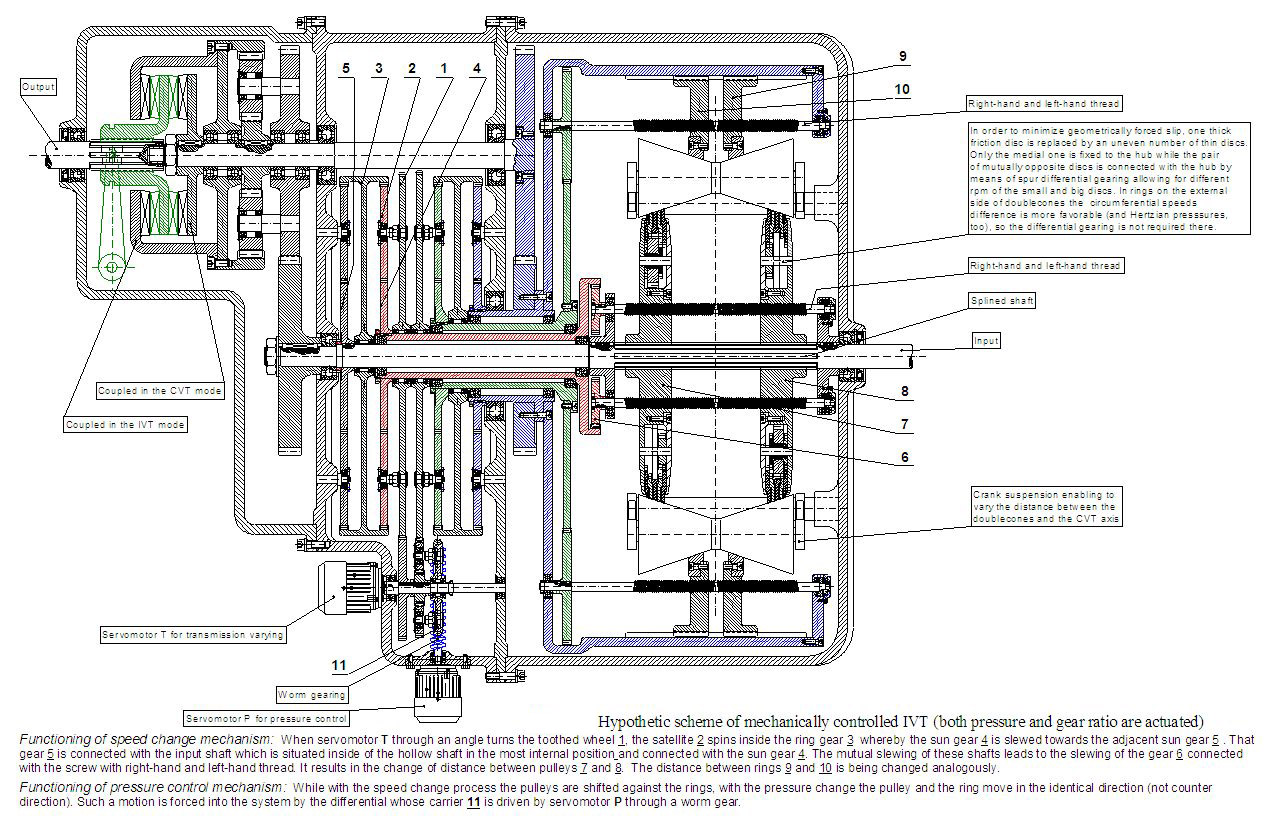 Infinitely Variable Transmission with rigid friction members (shaped as double cones) in planet configuration.